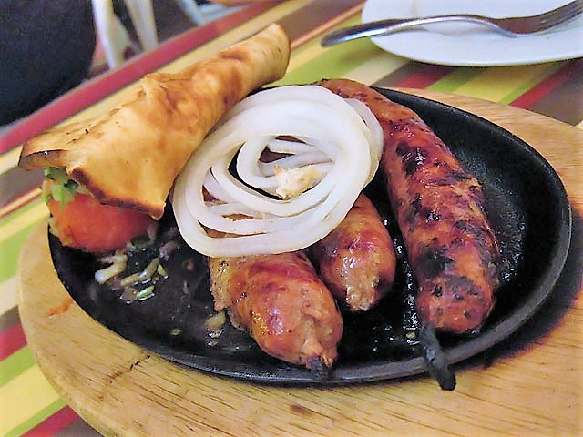 Me So Hungry food blog